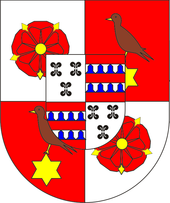 coats of arms of the lordship of Lippe; 1,4: county of Lippe; 2,3; county of Schwalenberg; heart: county of Vianen-Ameide